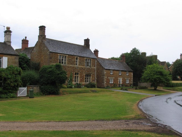 Houses in Ayston